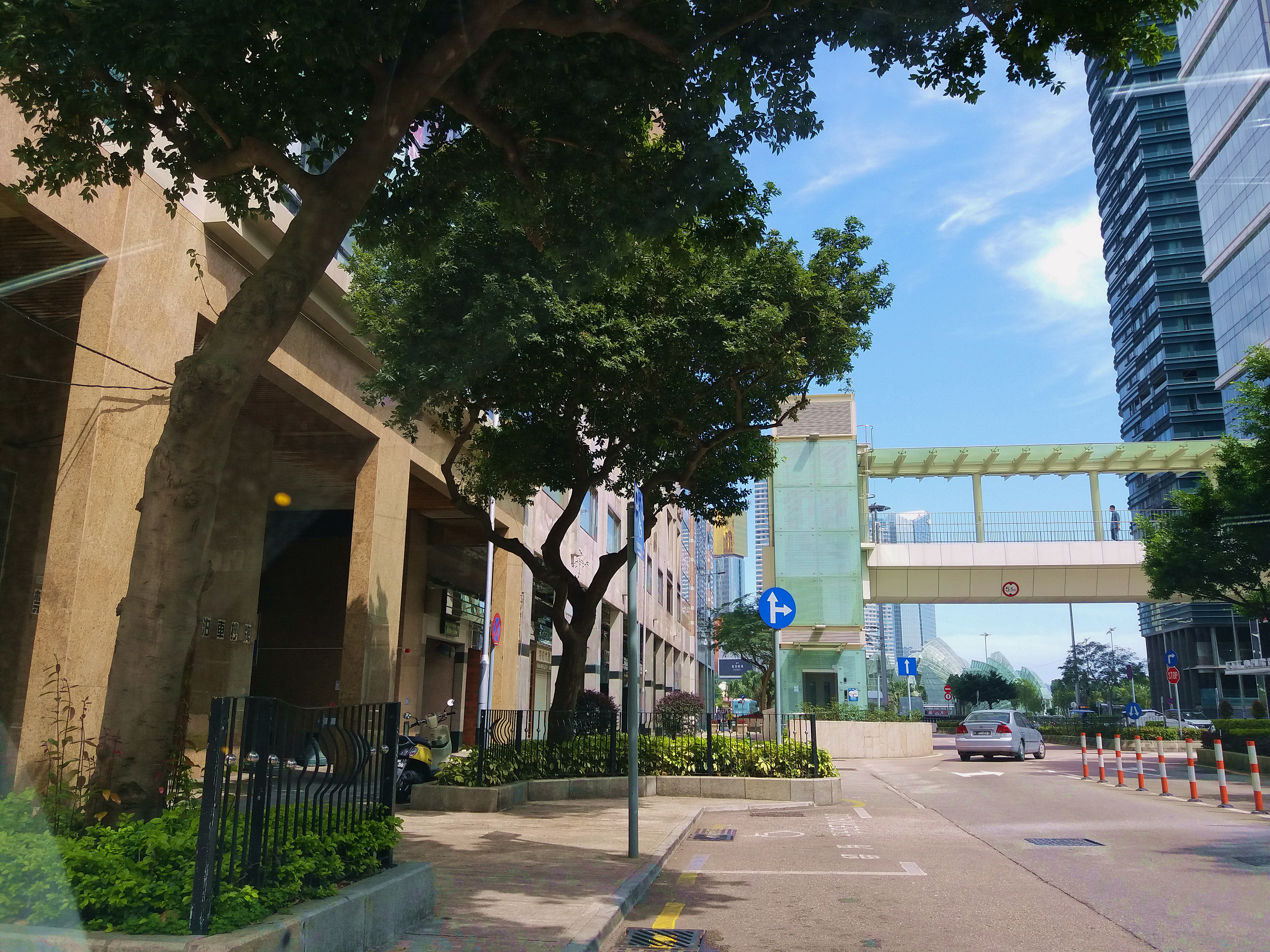 The road under the epidemic